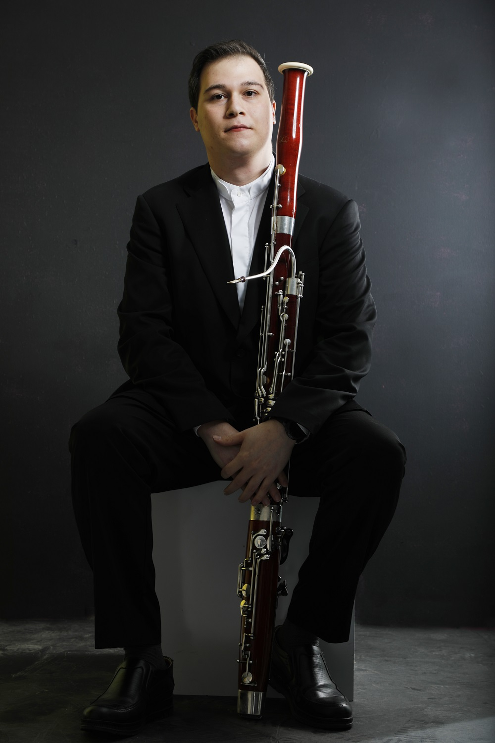 Alireza Motevaseli